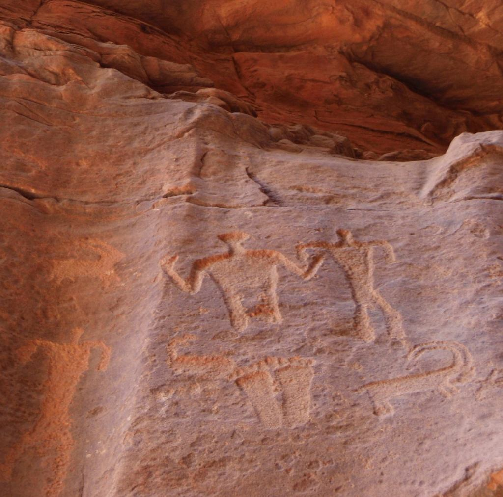 Petroglyphs At Wadi Rum